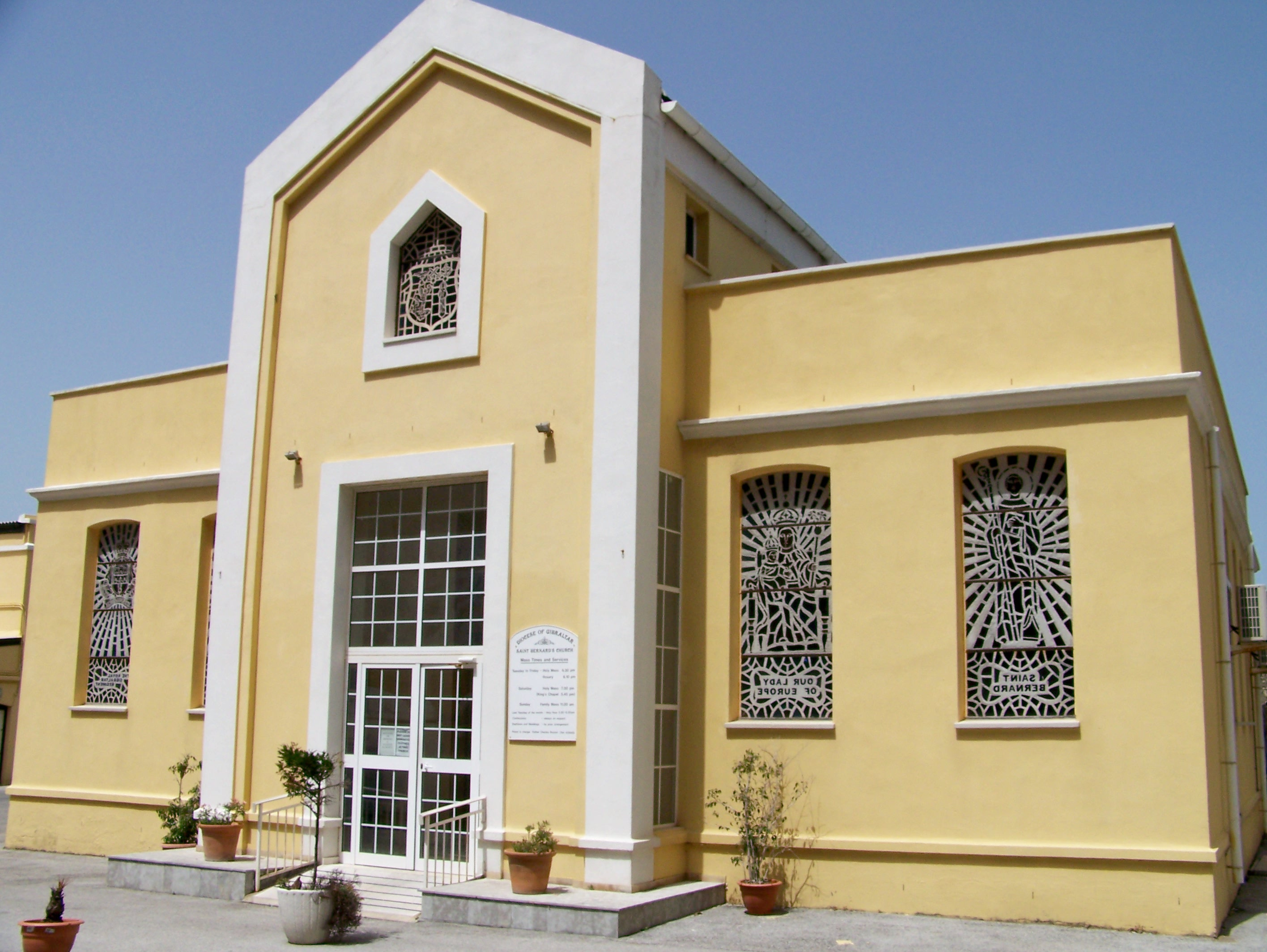 St Bernard is the patron saint of Gibraltar and he also features at Kings Chapel